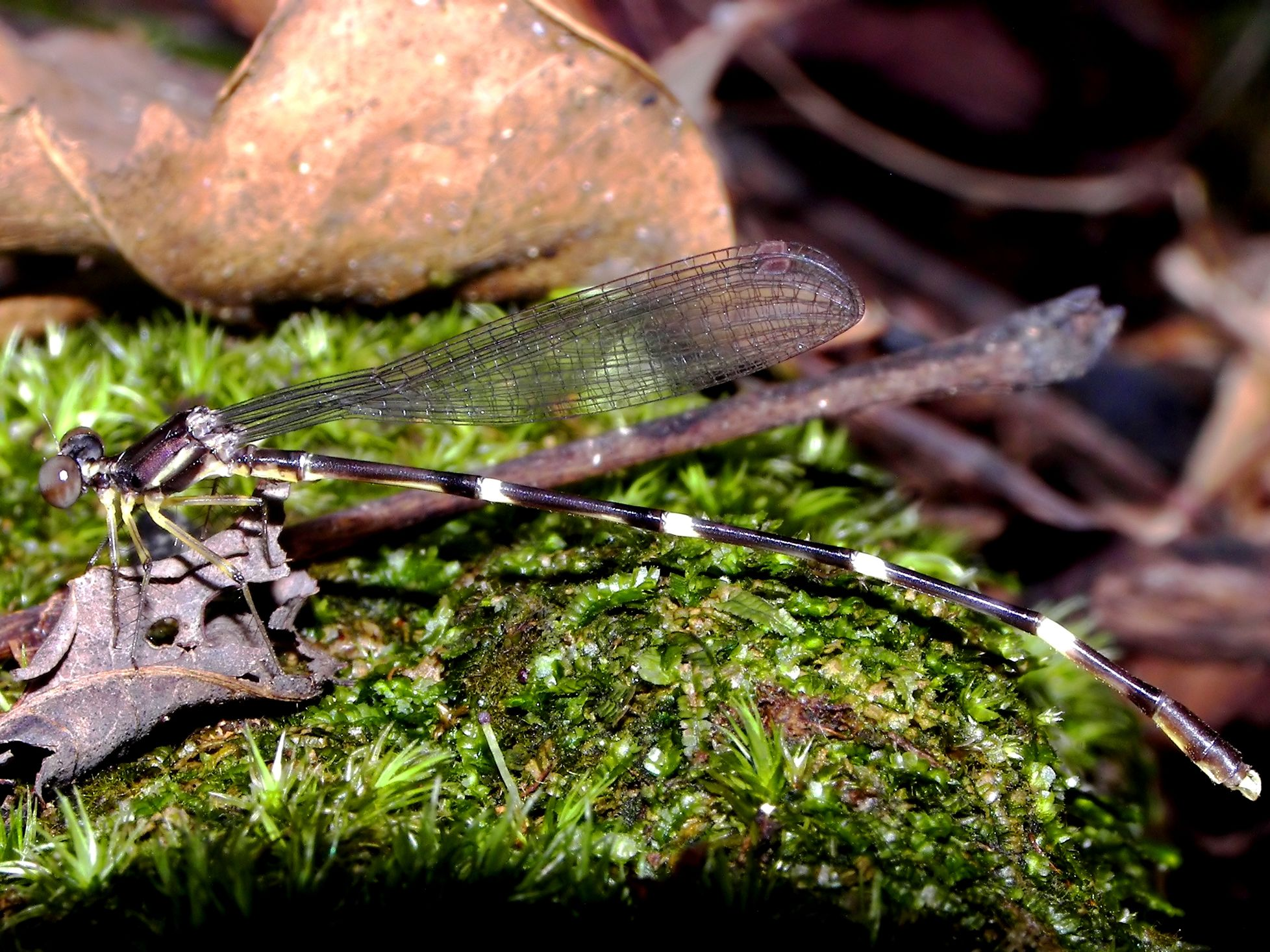 White-banded Shadowdamsel